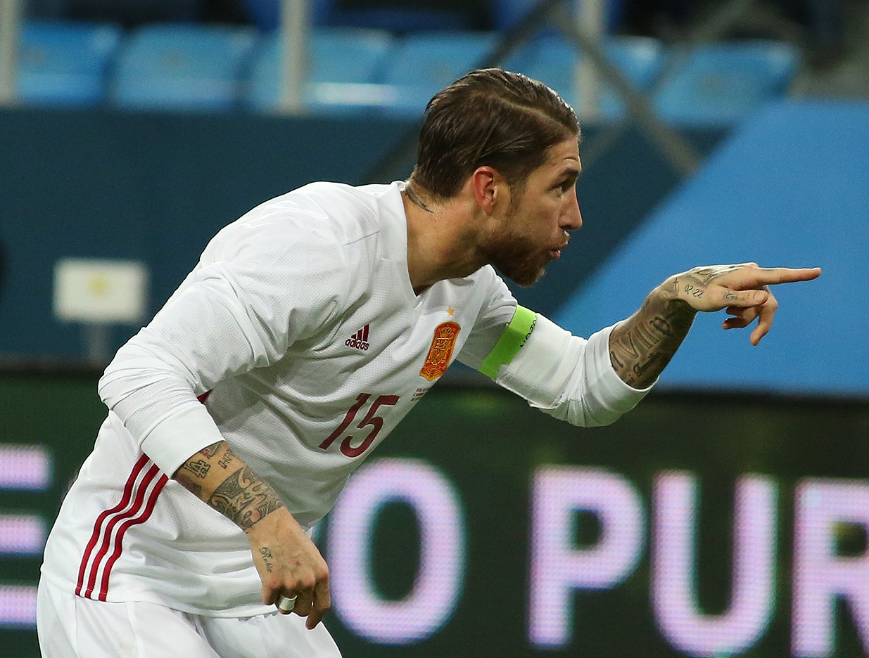 Sergio Ramos